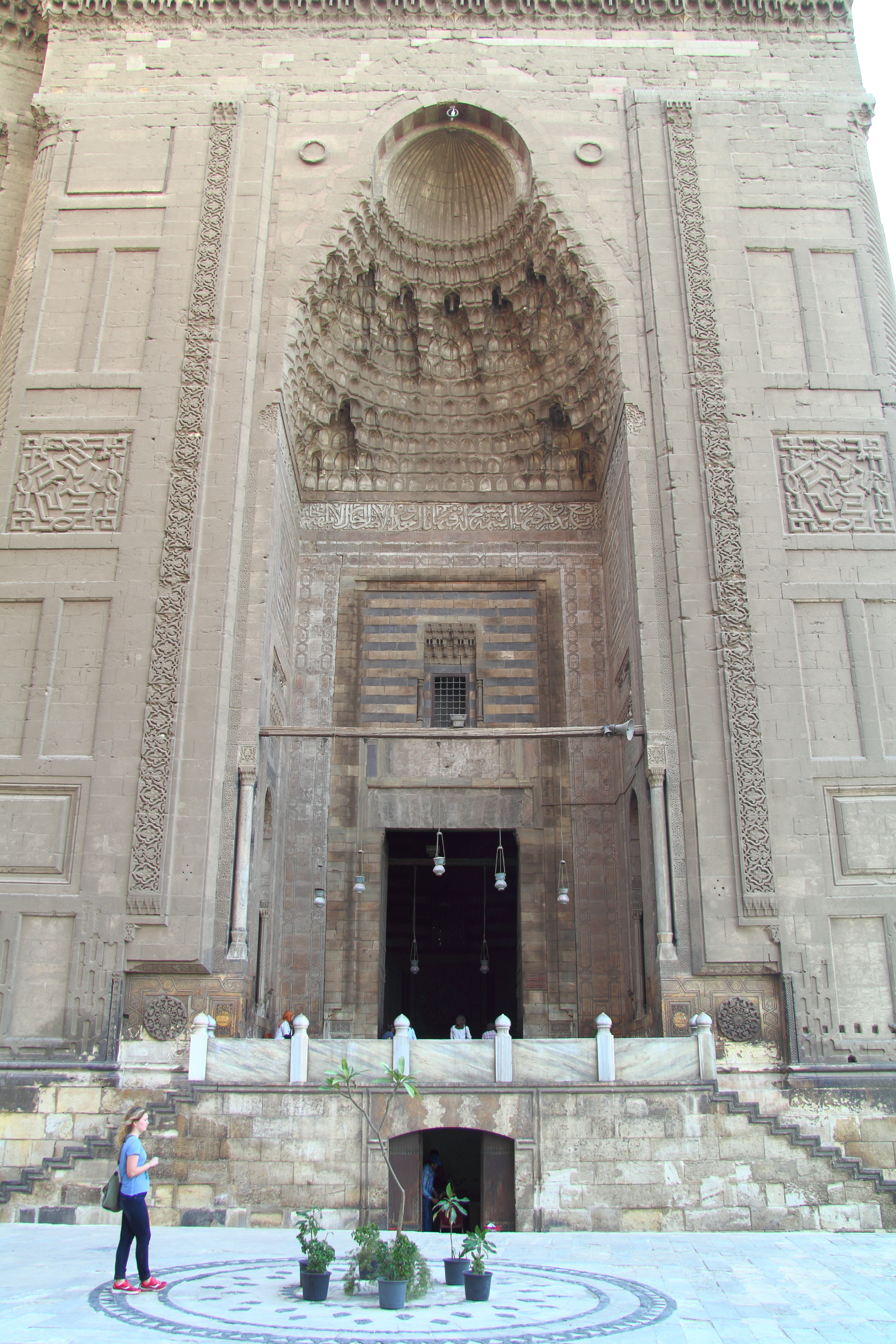 Cairo, Egypt: Mosque-Madrassa of Sultan Hassan